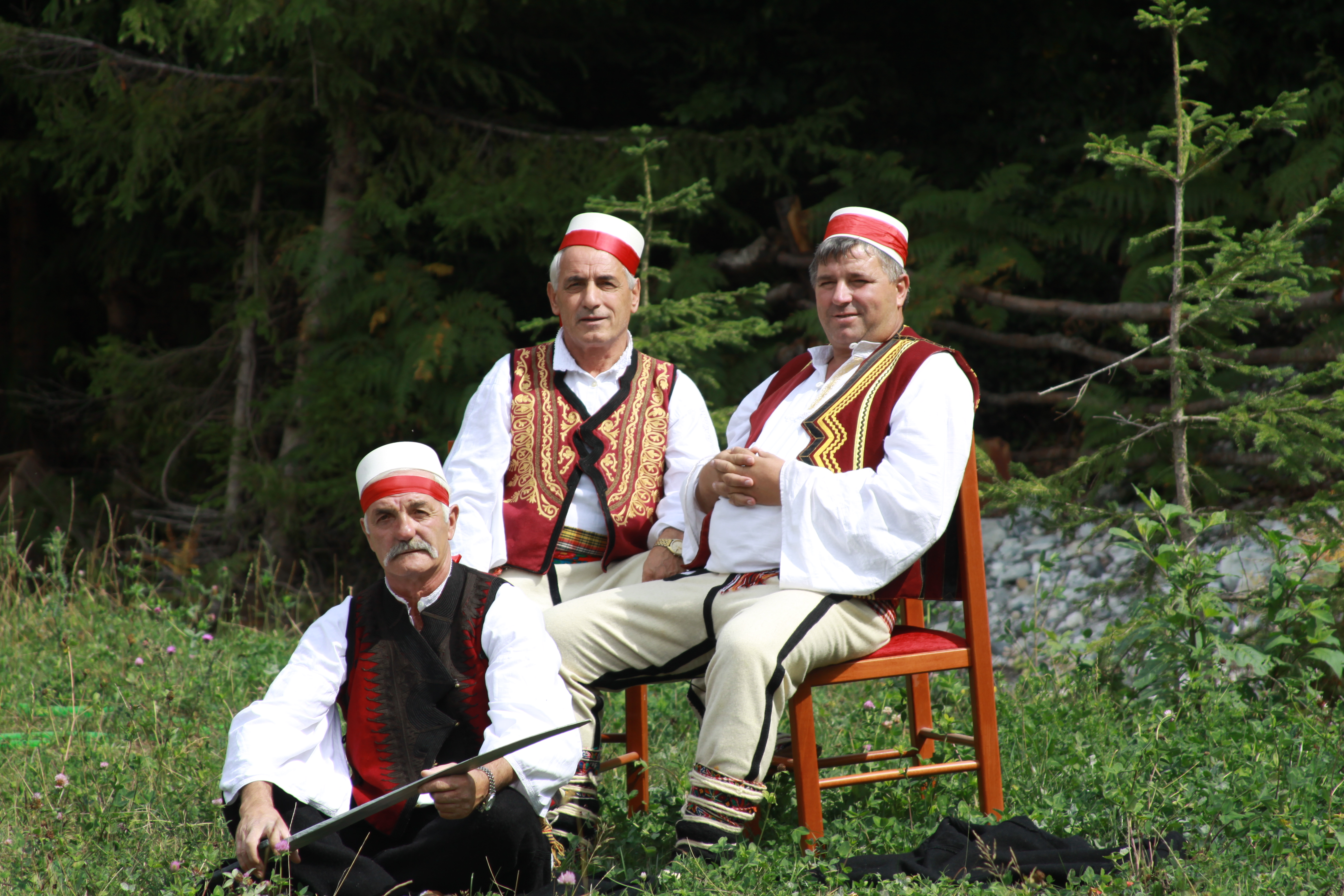 Valltare te Estades Amatore te Kukesit